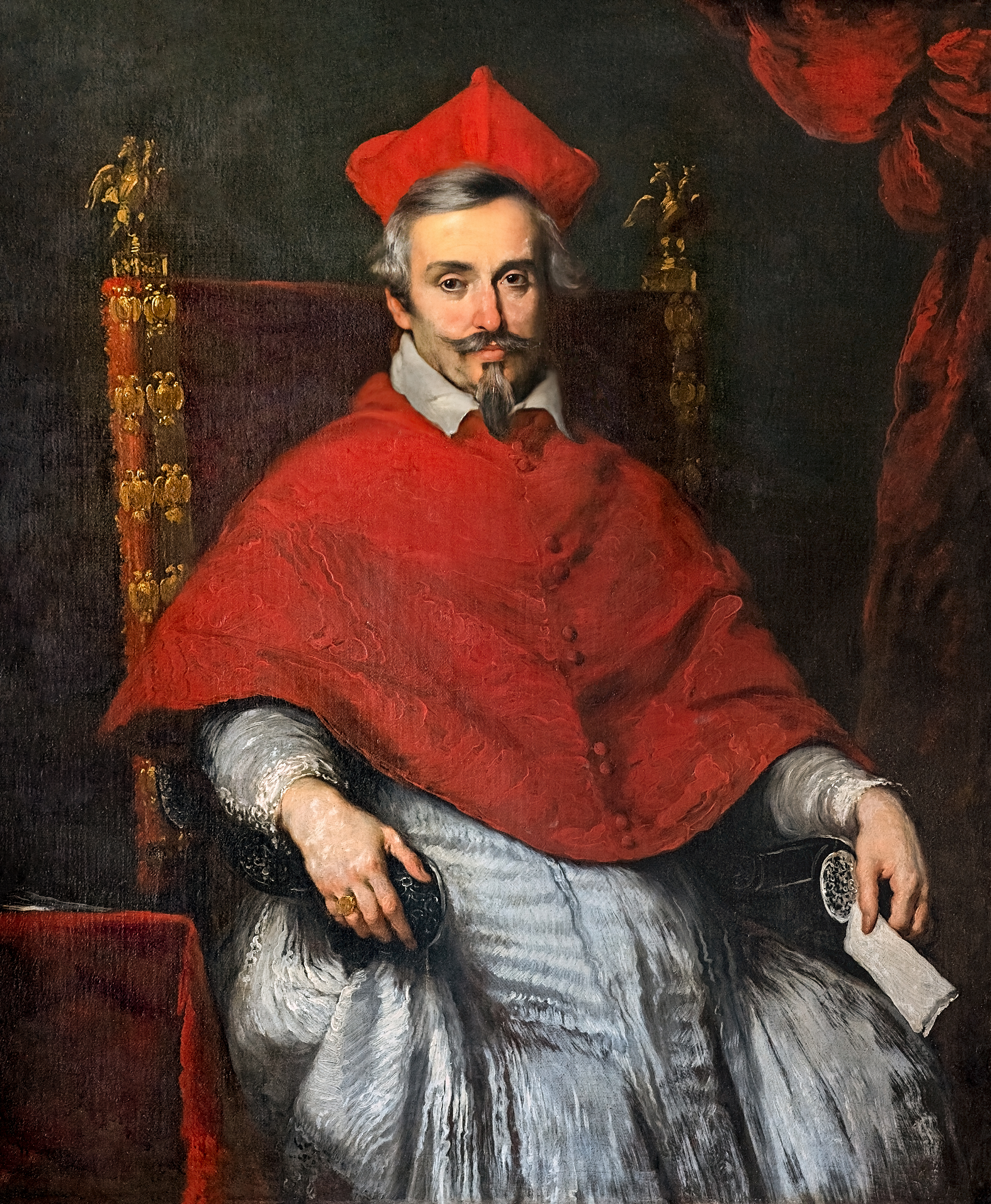 Depicted person: Federico Baldissera Bartolomeo Cornaro – Catholic cardinal